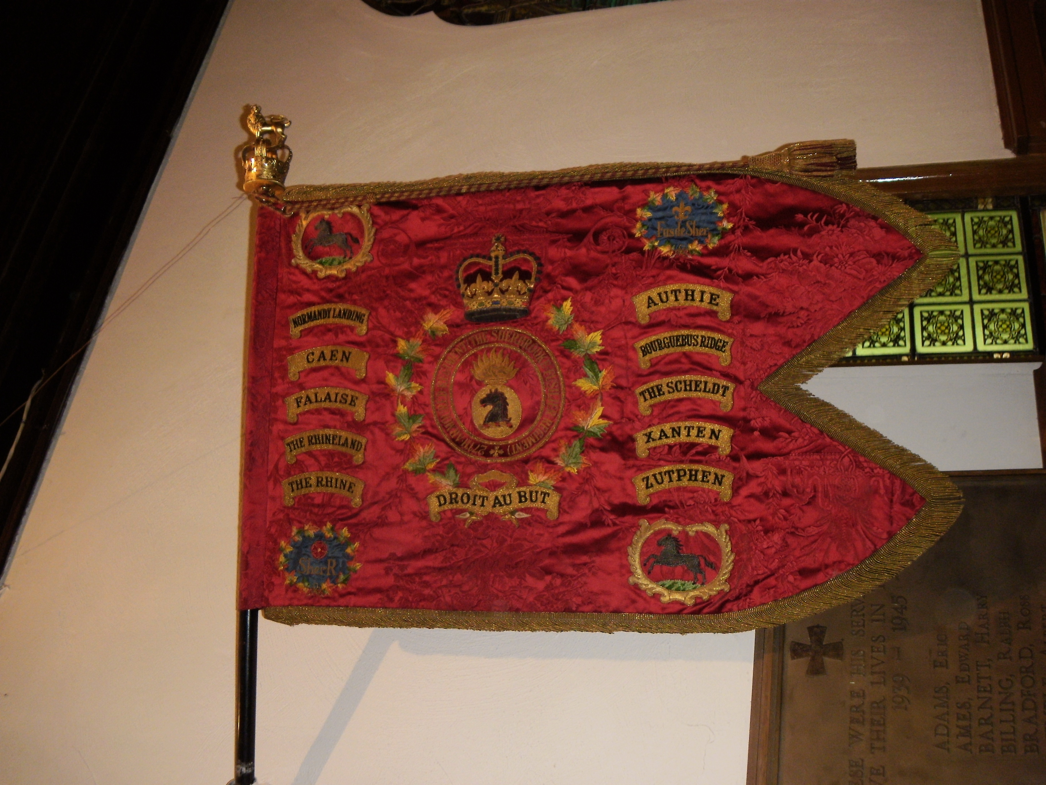 A colour photo of the regimental guidon, or colours, of the WWII Sherbrooke Fusiler Regiment.